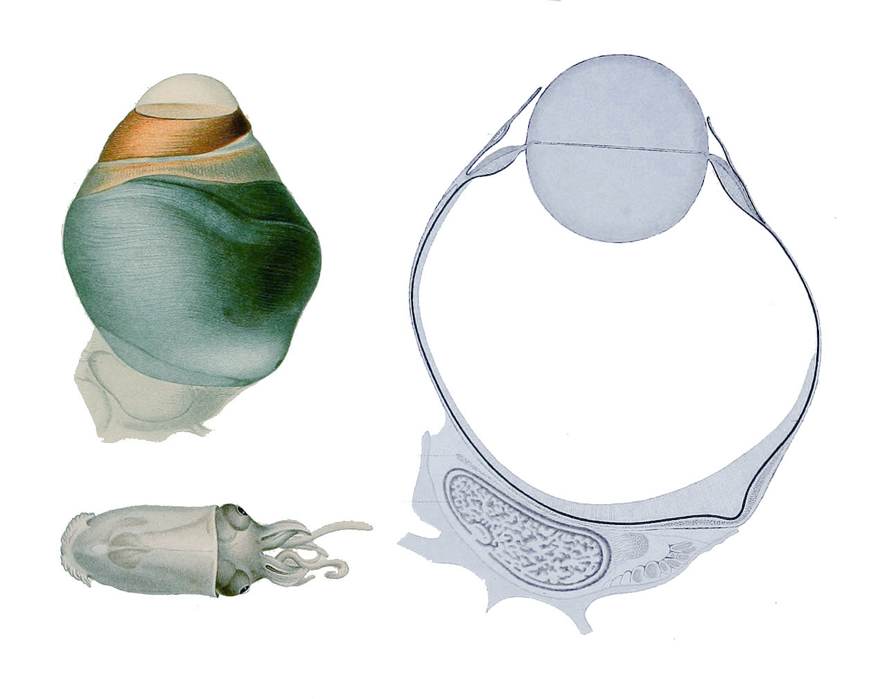 Bathyteuthis sp.'s eye